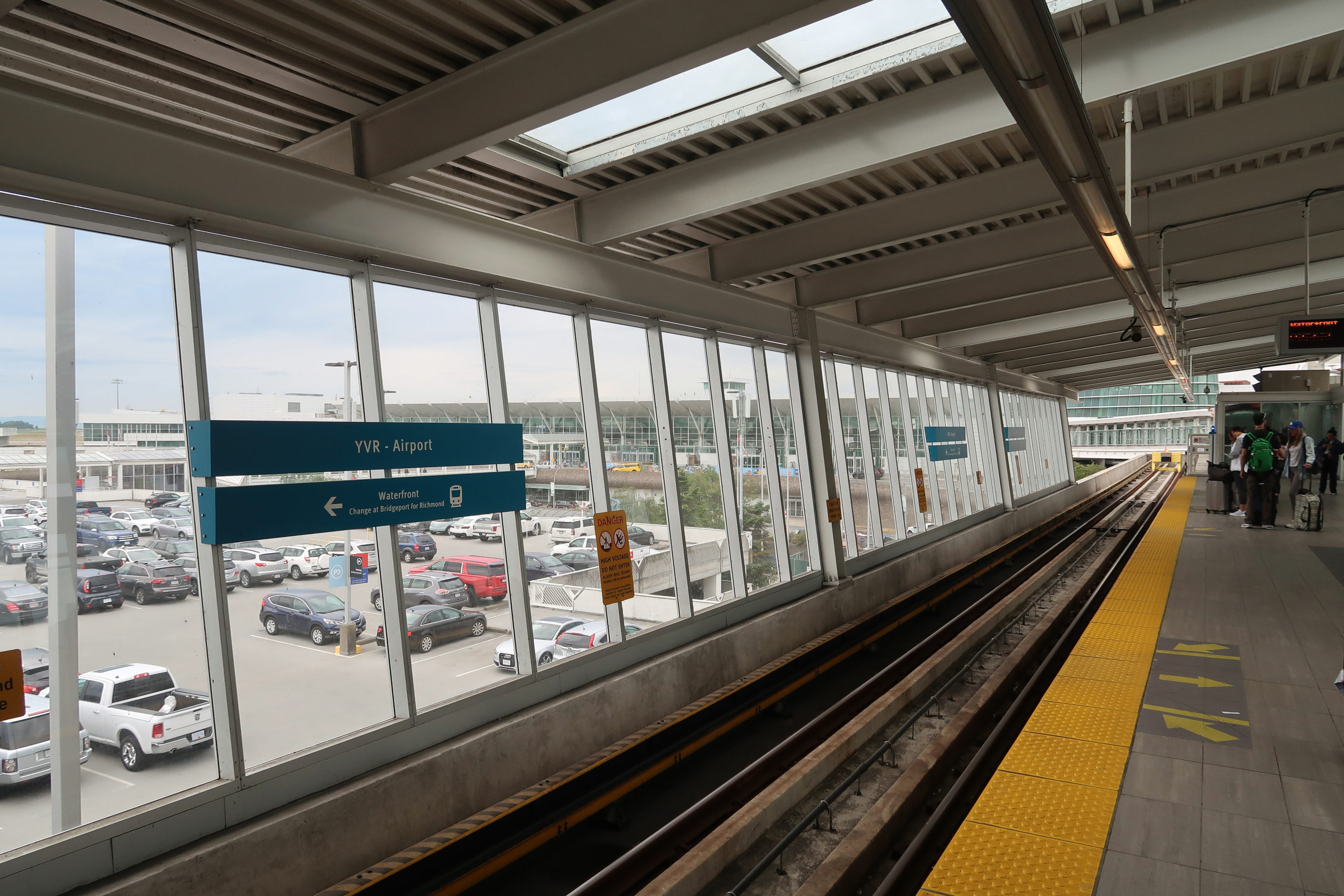 YVR–Airport station